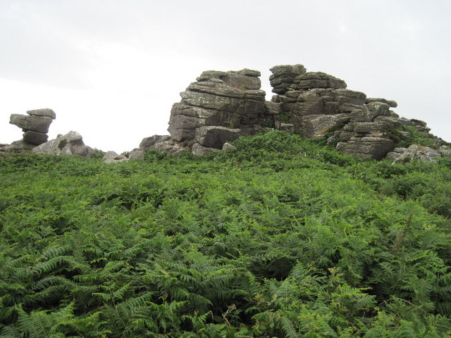 Looking towards Carn Kenidjack from the north The Carn is in the adjacent square, with a network of footpaths running to the north of it.